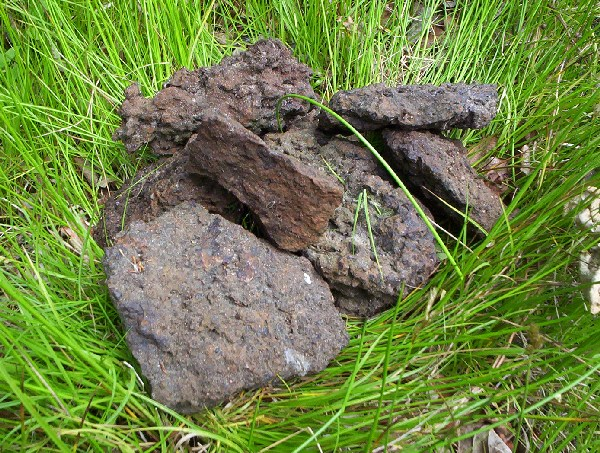 Bog ore (limonite) from forest near Żyrardów (Poland, Masovia).